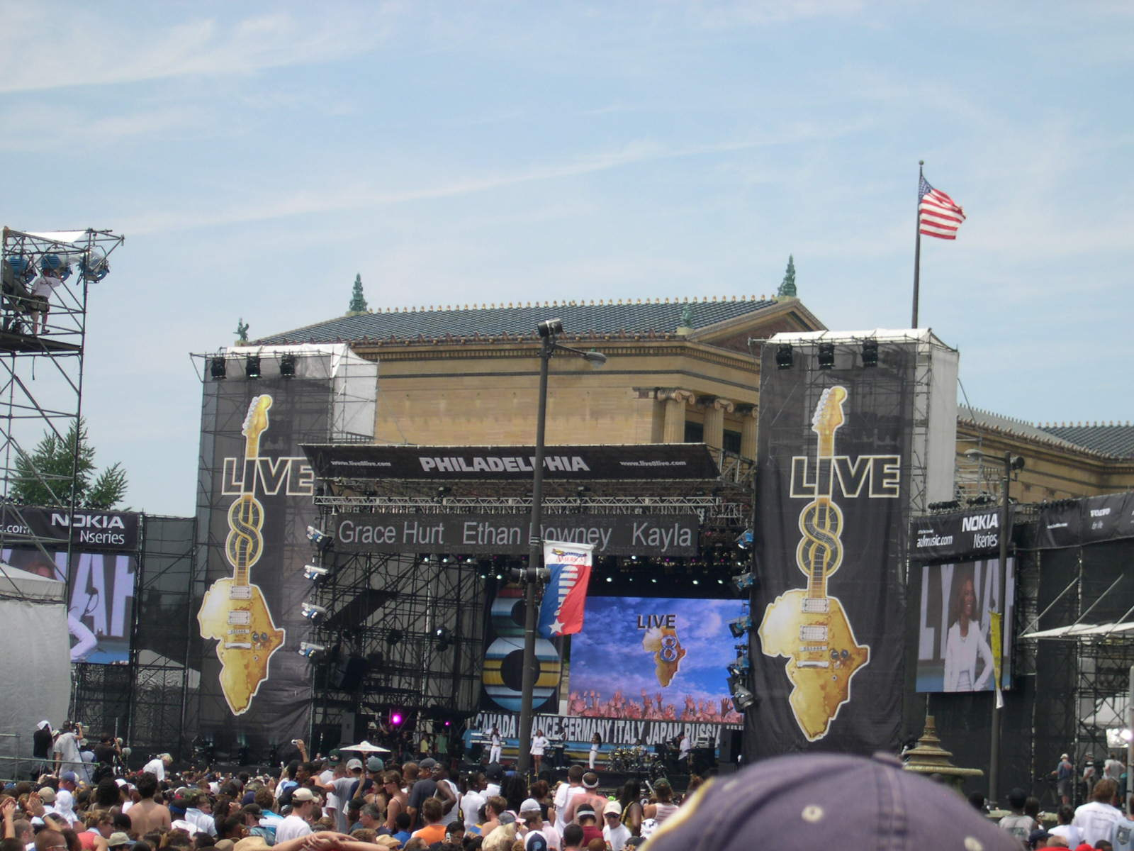 Destiny's Child at Live 8 in 2005.